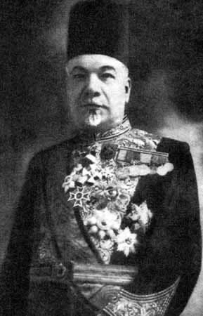 Muhamad ali al-abed 1st prisendent of syria